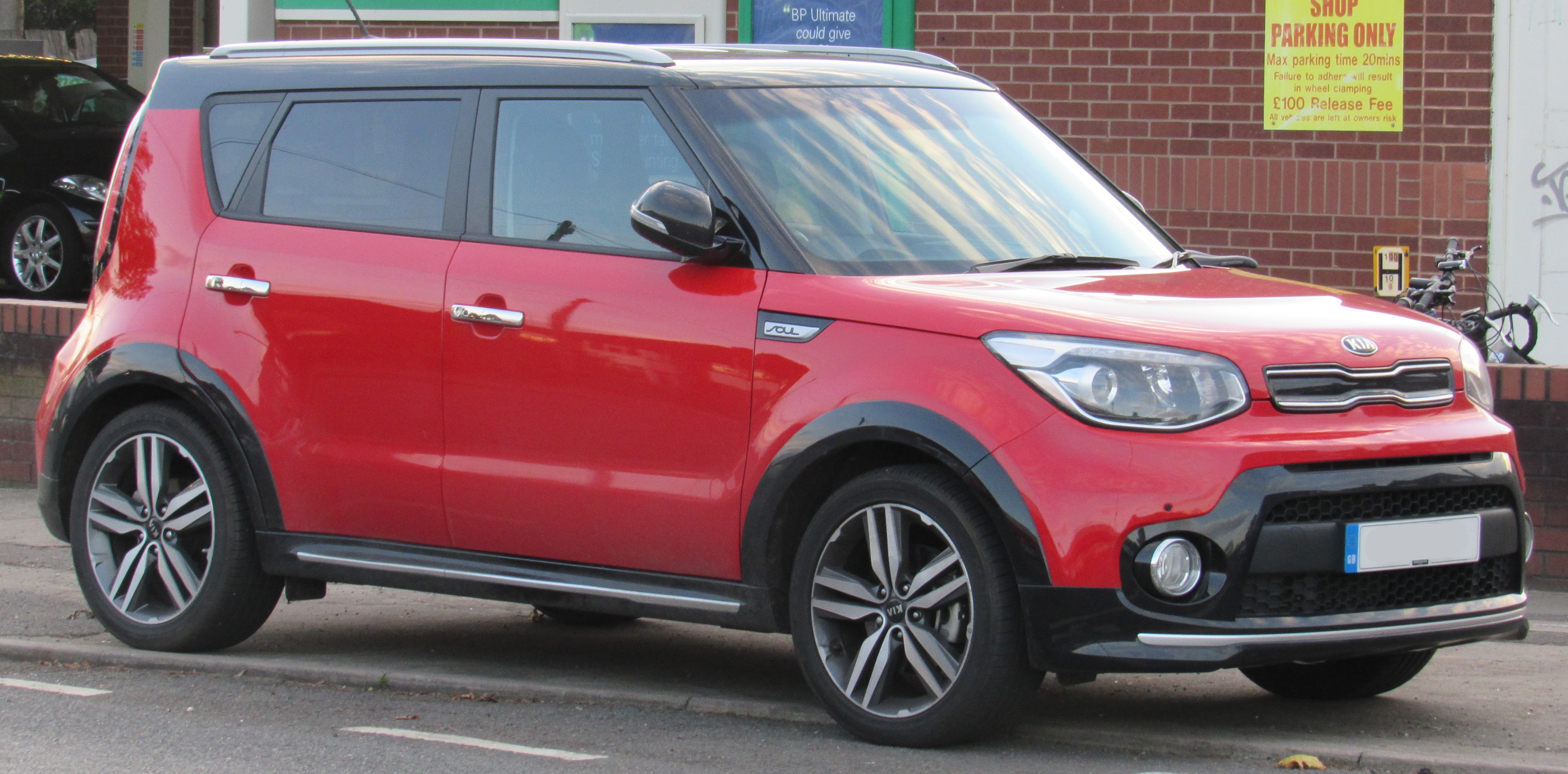 2017 Kia Soul 3 CRDi S-A 1.6 Front Taken in Warwick